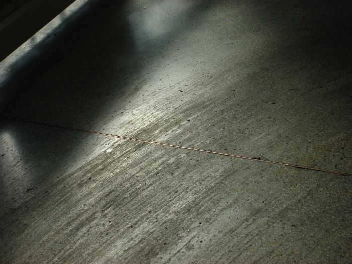 Foundation